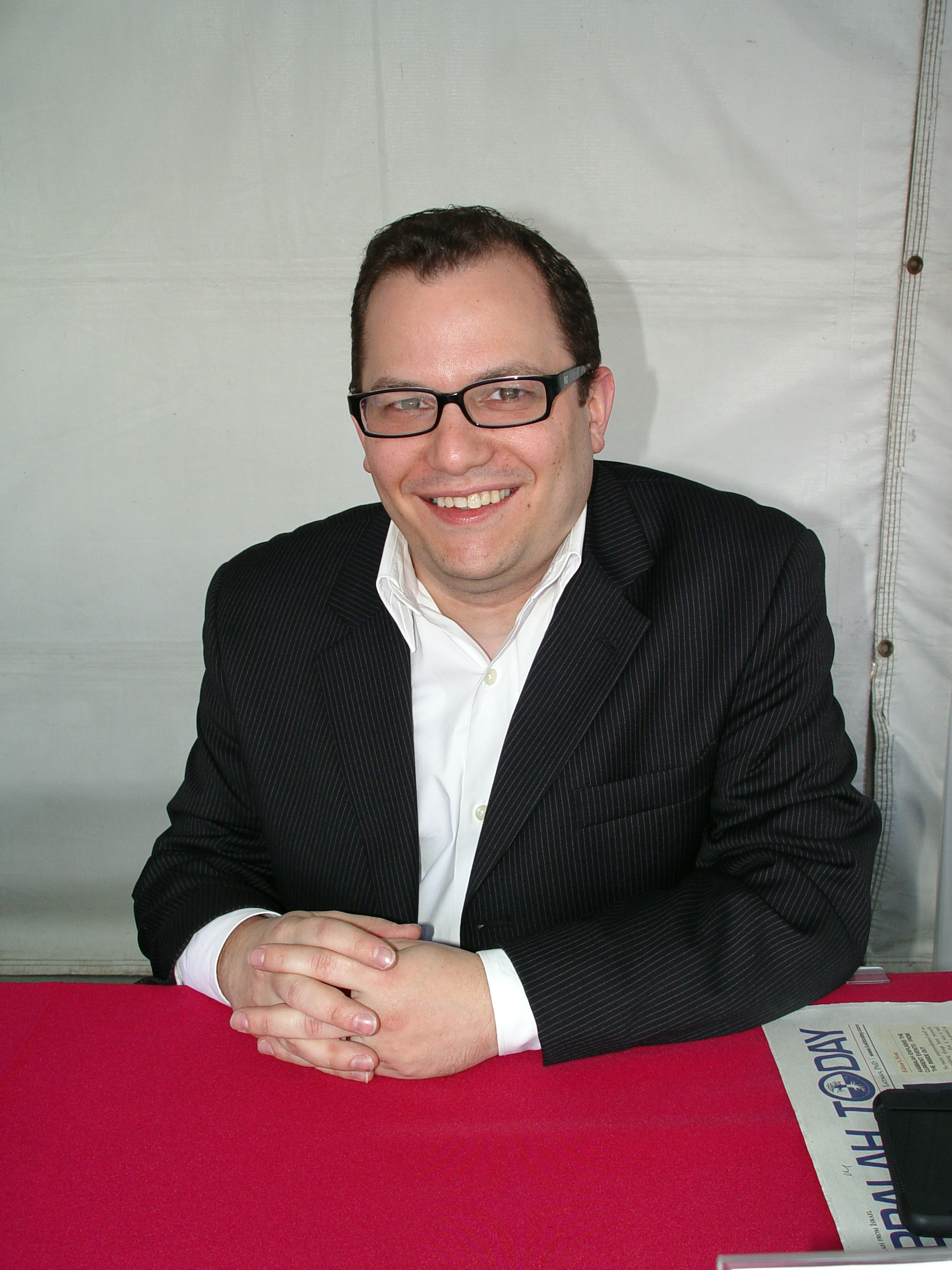 Benyamin Cohen, founder and editor of both Jewsweek and American Jewish Life Magazine. Taken at the Celebration of Jewish Books Festival, American Jewish University, Bel Air, California.